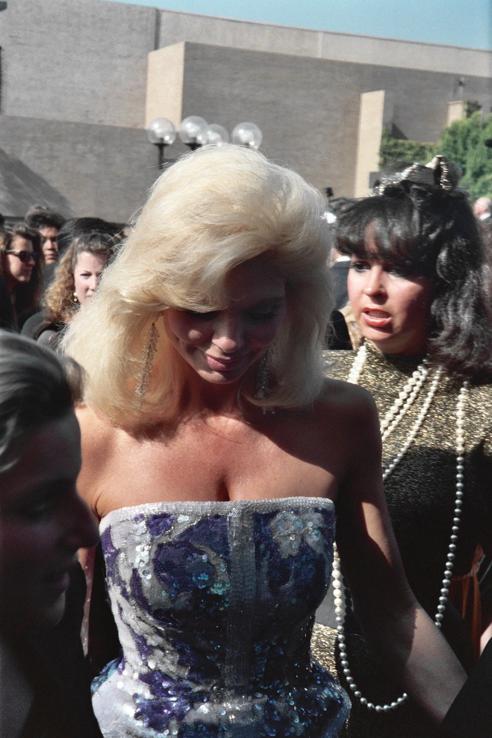 Arriving at the 1991 Emmy Awards. NOTE: Permission granted to copy, publish, broadcast or post any of my photos, but please credit "photo by Alan Light" if you can. Thanks. Scanned from the original 35MM film negative.